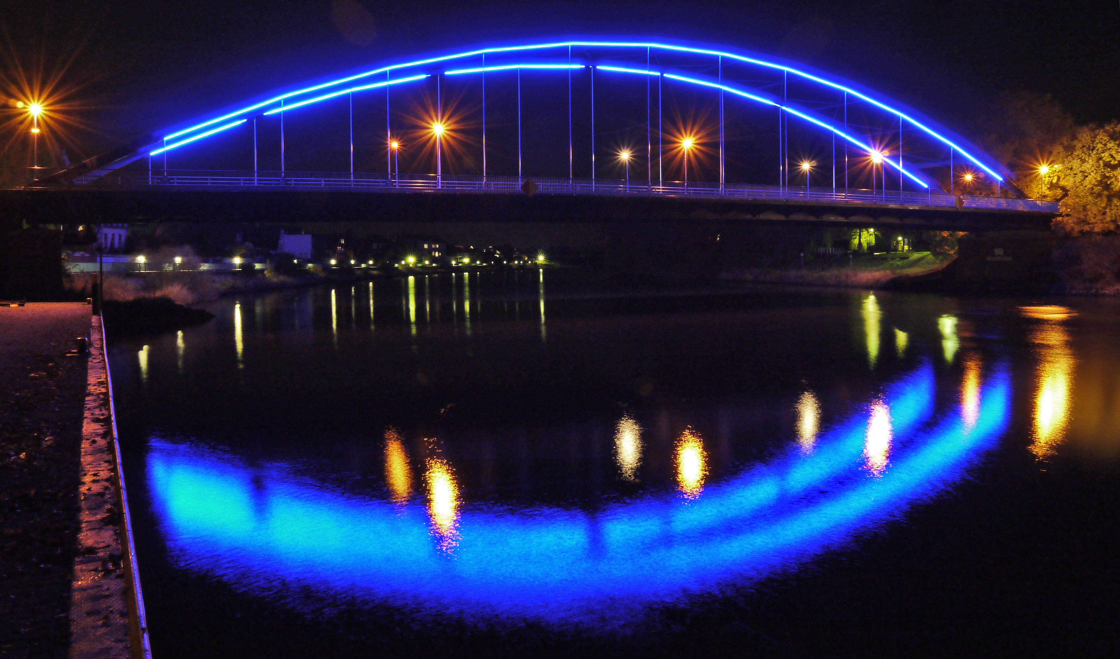 Blue illuminated bridge (for cars) over the river Weser in Hoya, Germany.